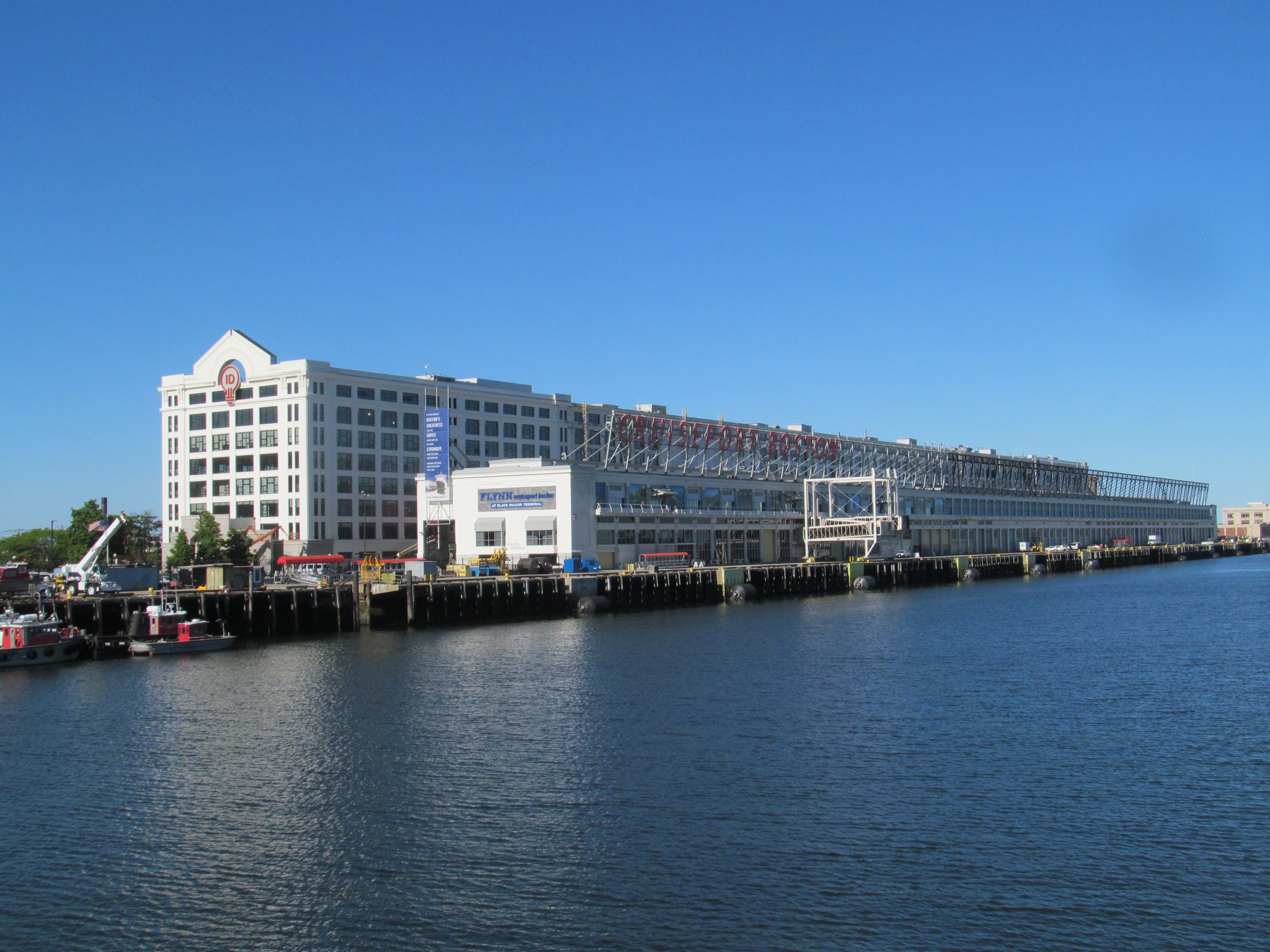 Cruiseport Boston and Design Center in June 2017